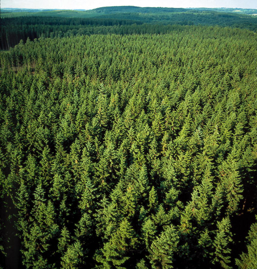 Pine forest in Sweden